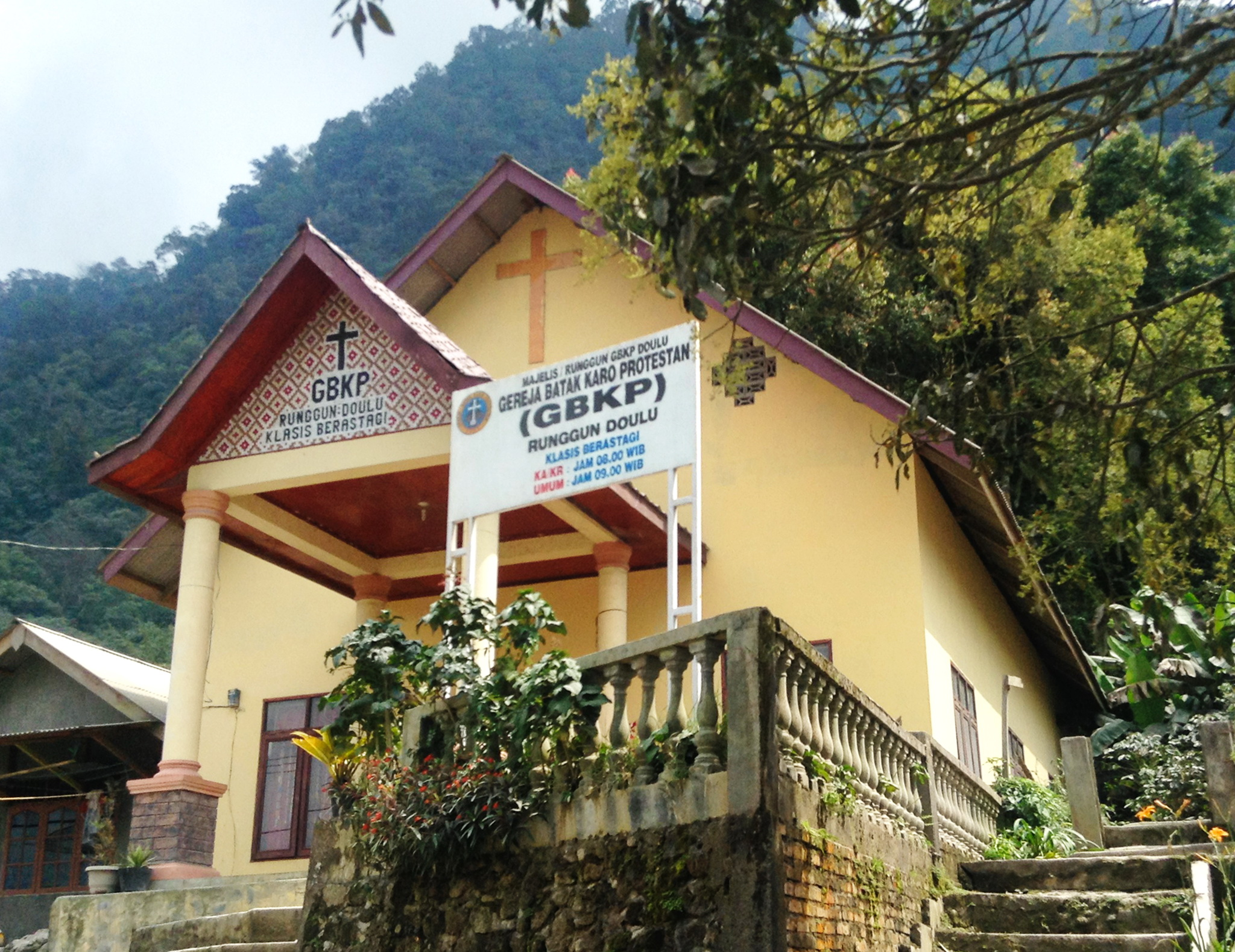 GBKP Rg. Doulu, Klasis Berastagi, Church in Doulu, Berastagi, Karo